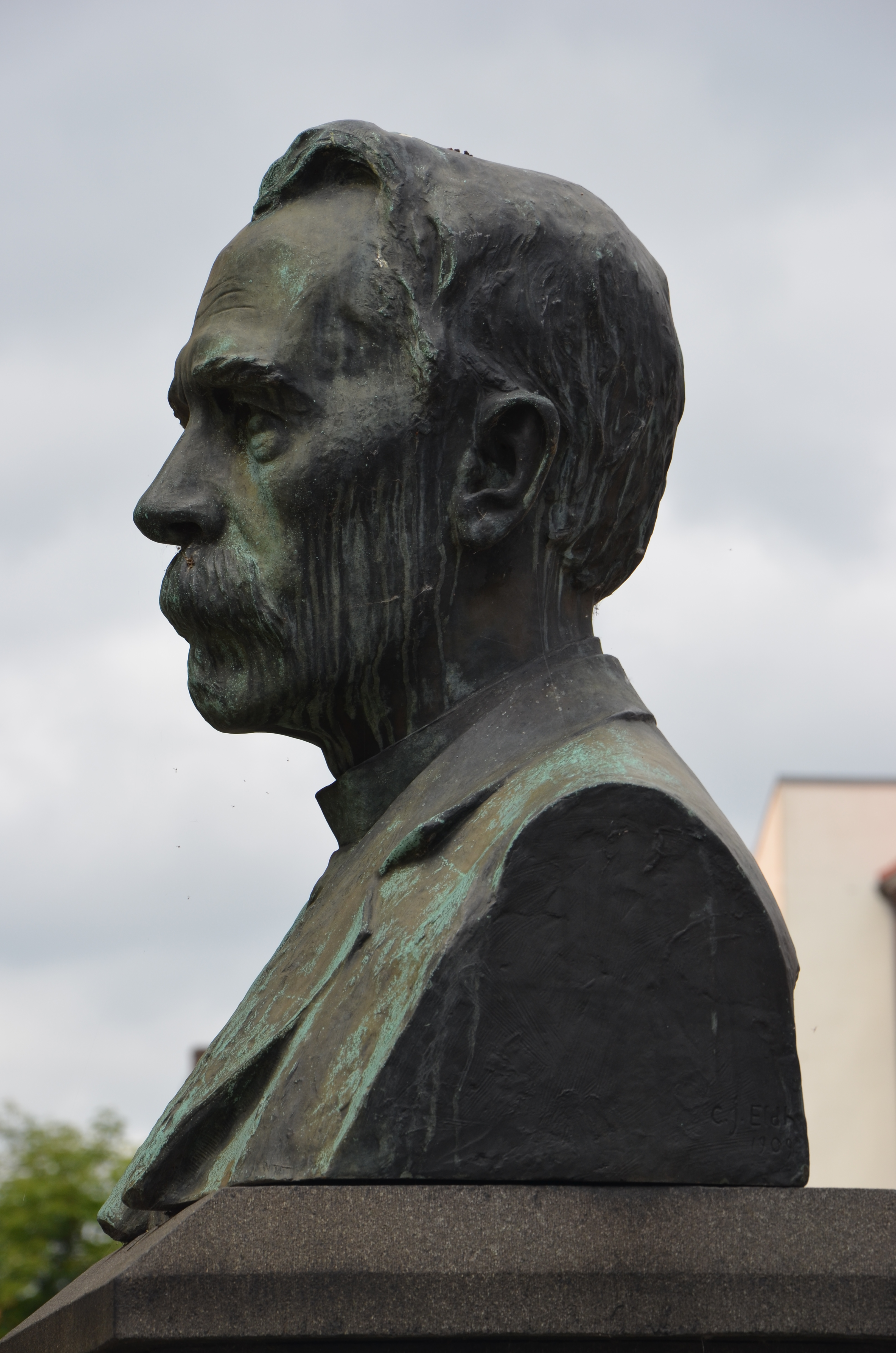 Carl von Feilitzen, bust by Carl Eldh, Vedtorget, Jönköping, Sweden